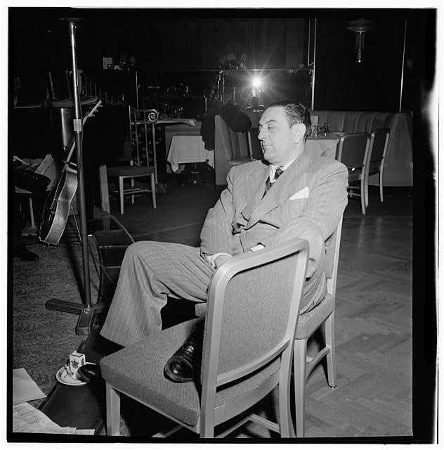 Portrait of Guy Lombardo, Starlight Roof, Waldorf-Astoria, New York, N.Y.